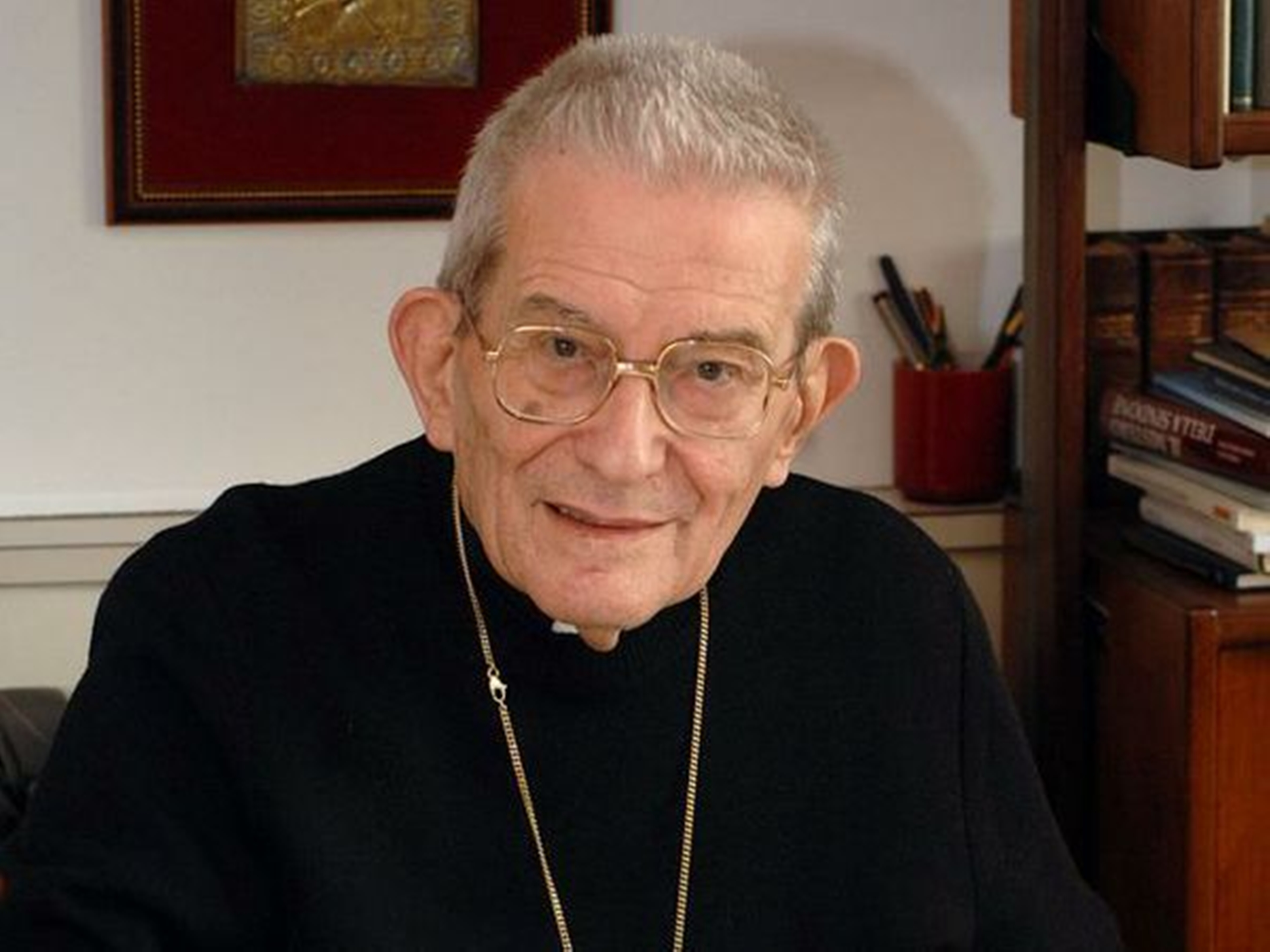 Su Eminencia, Loris Capovilla.